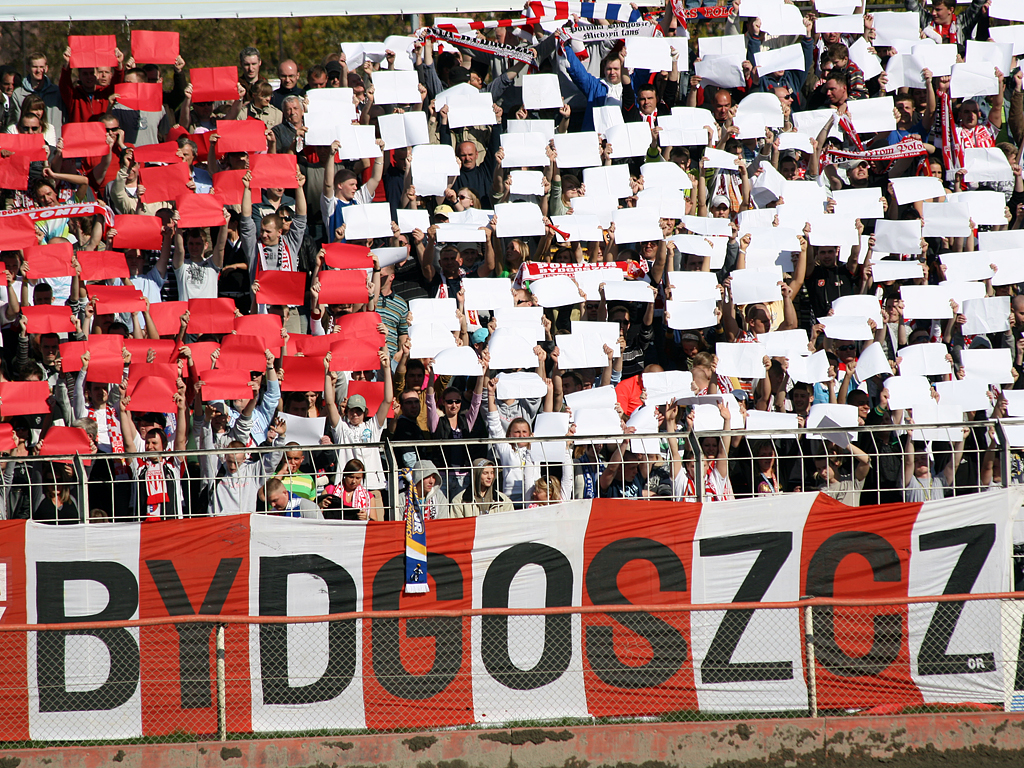 Fans of speedway club Polonia Bydgoszcz durnig match Polonia vs. Unibax Toruń (April 19th, 2009)